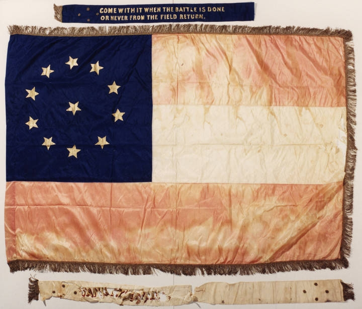 11th Alabama Infantry flag, Alabama Department of Archives and History